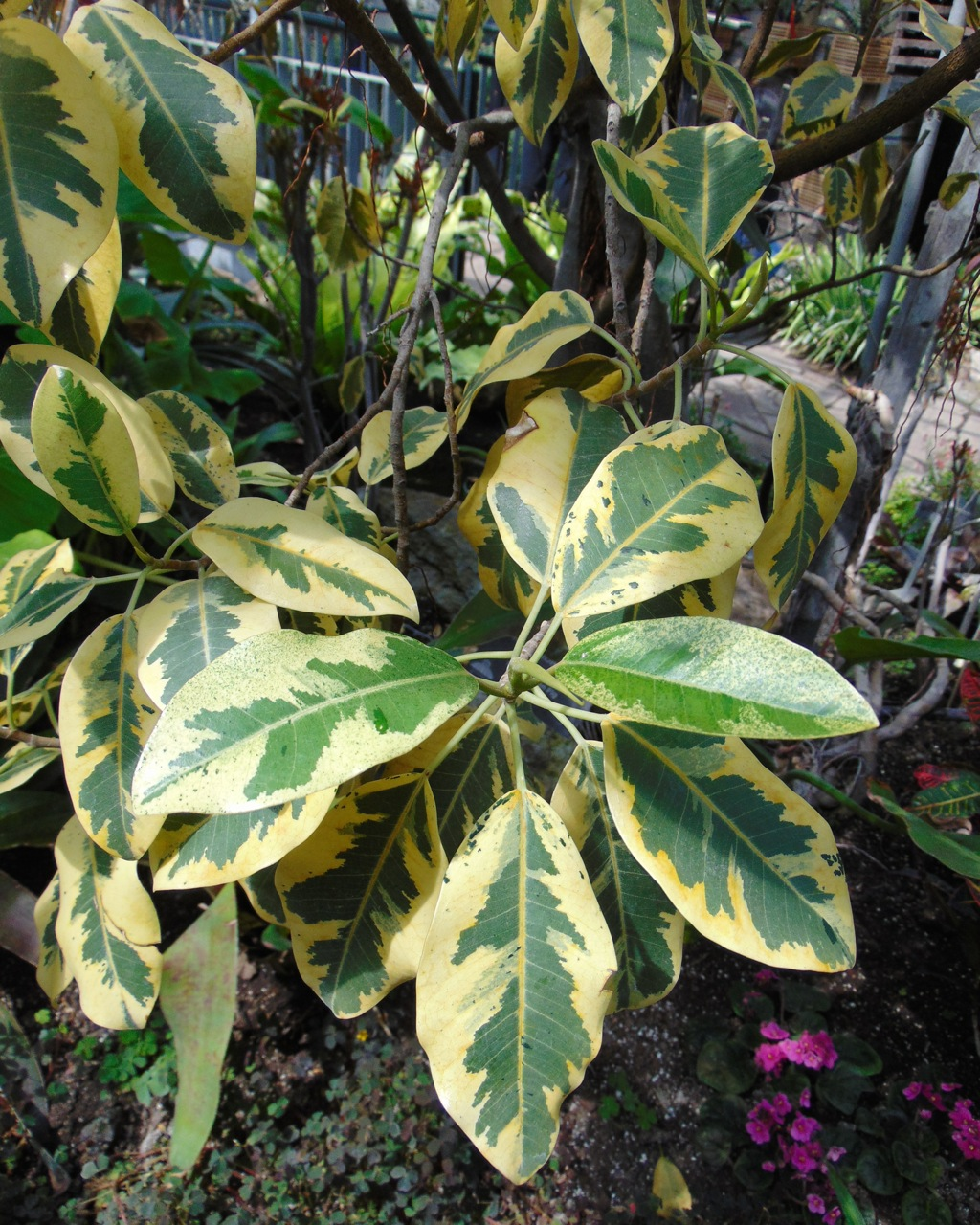 Ficus rubiginosa ‘Variegata’ Port Jackson Fig Please respect author's moral rights by not changing this description or the image title.